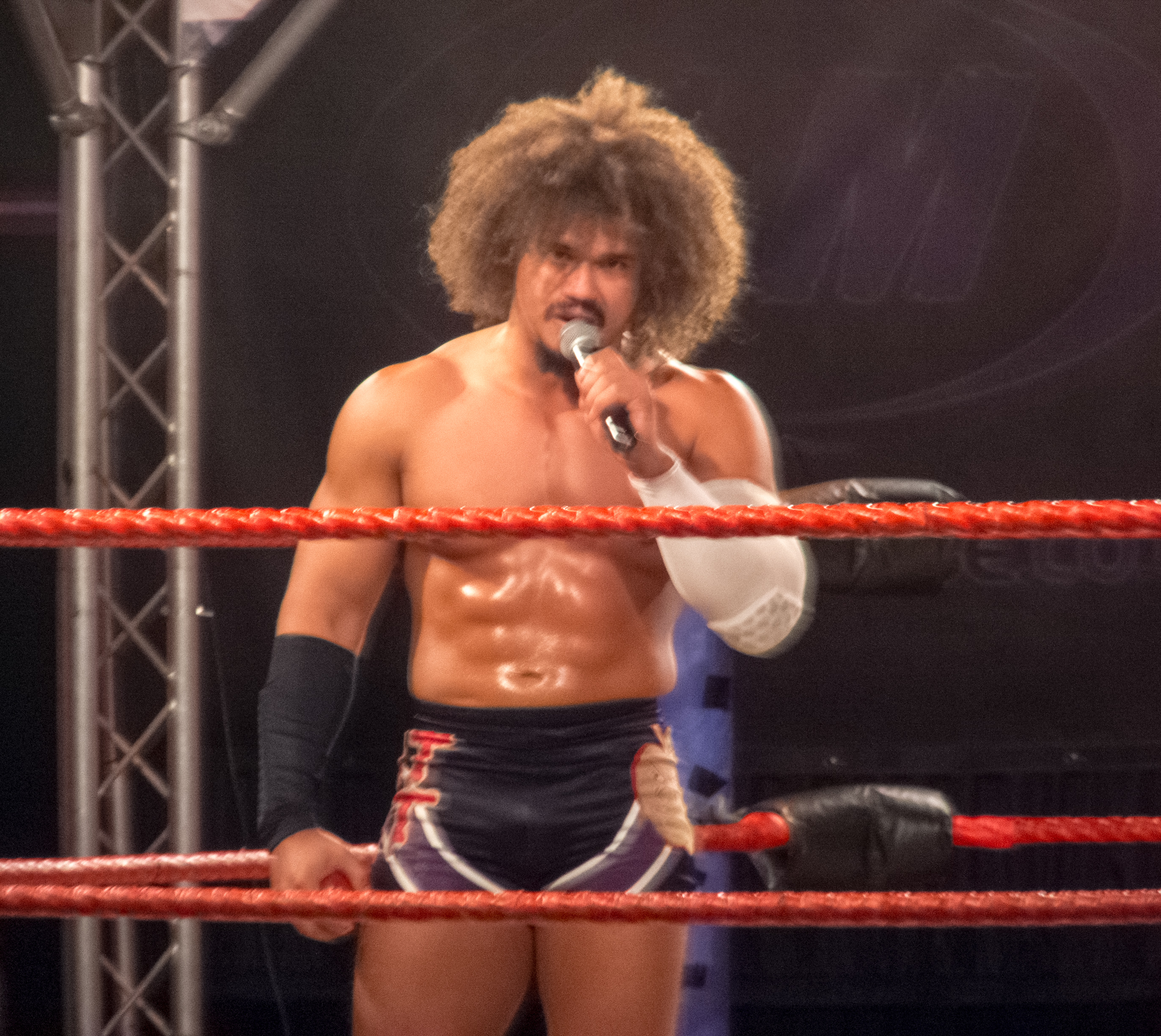 Former WWE wrestler Carlito